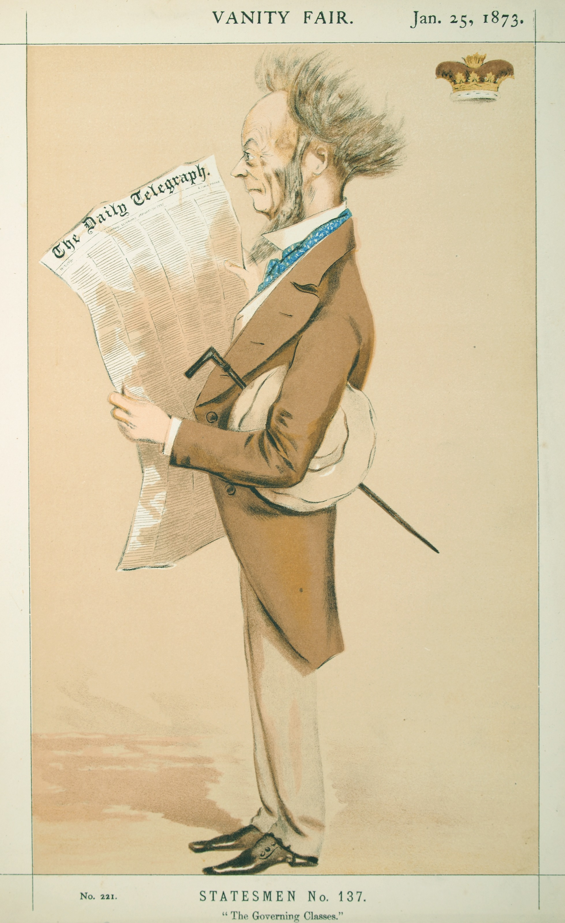 Statesmen No.137: Caricature of The Duke of Buccleuch and Queensbury. Caption reads: "The Governing Classes"